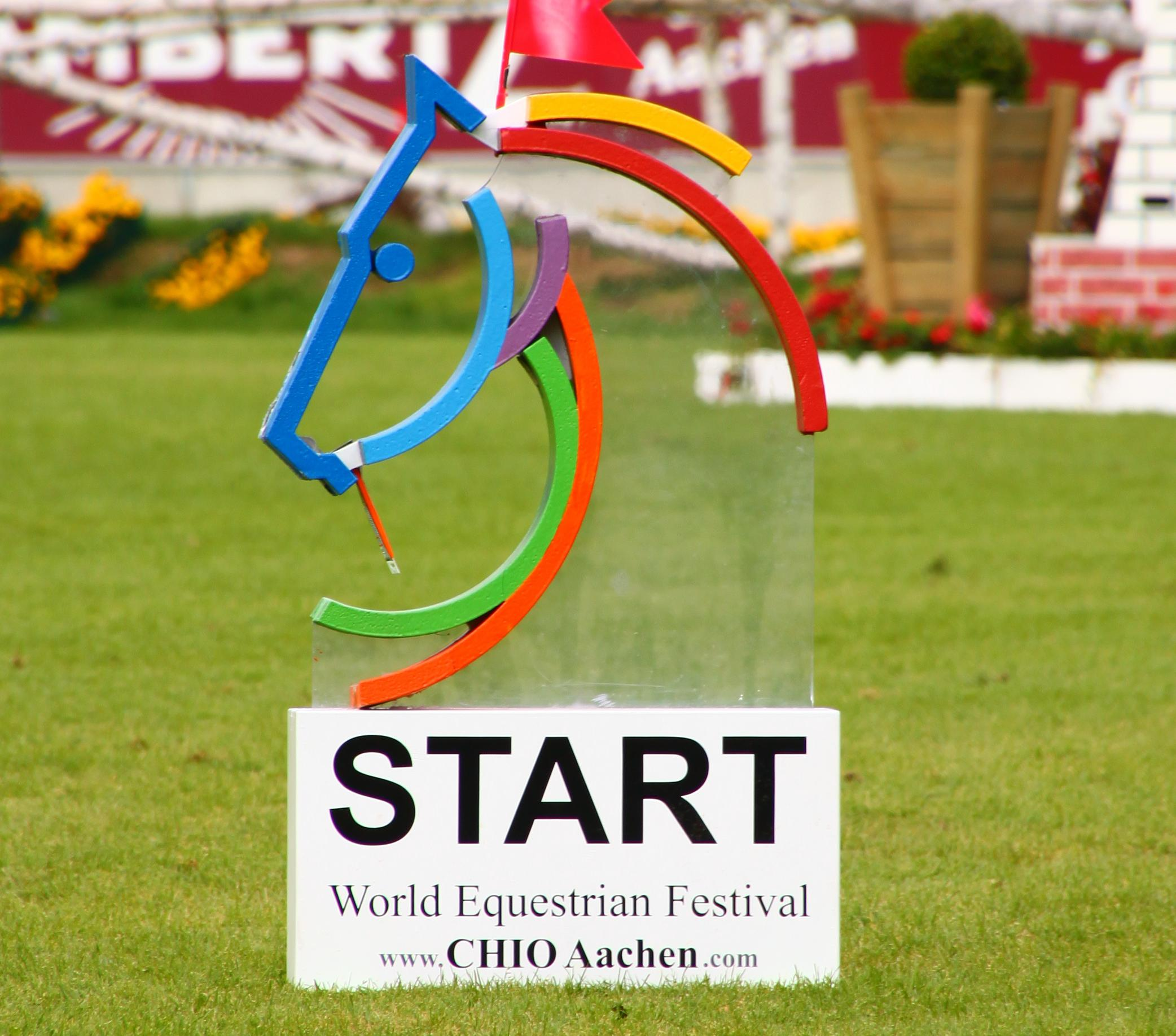 CHIO Aachen: World Equestrian Festival